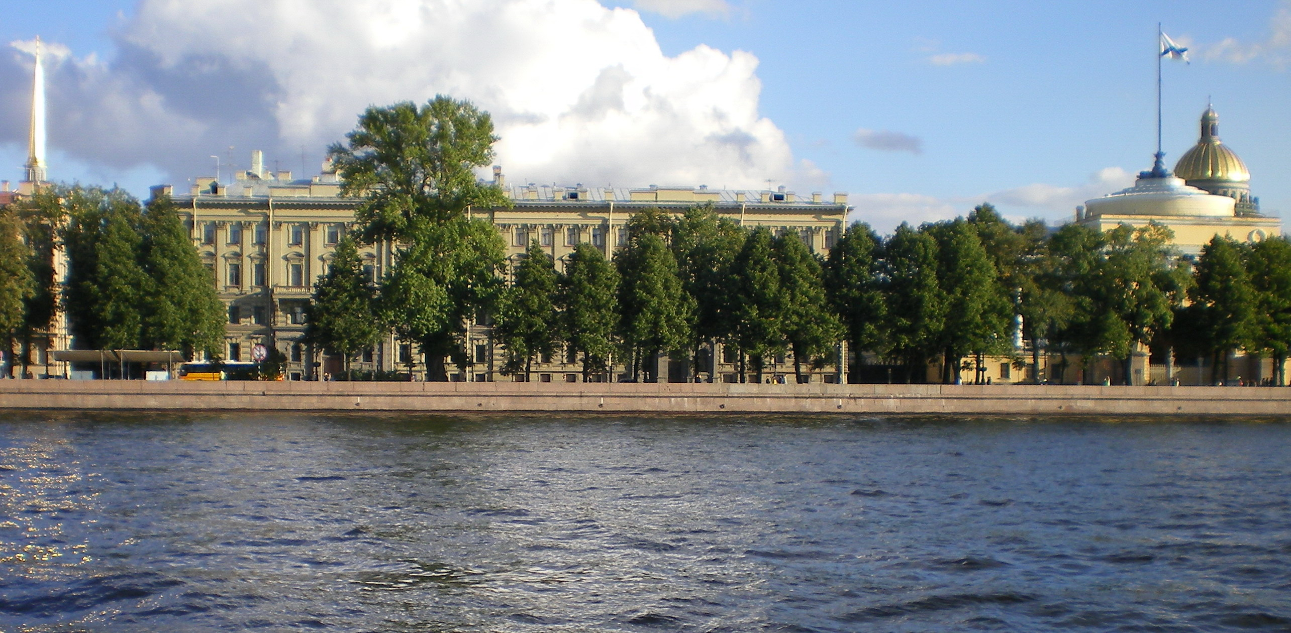 Admiralty Embakment in St.-Petersburg